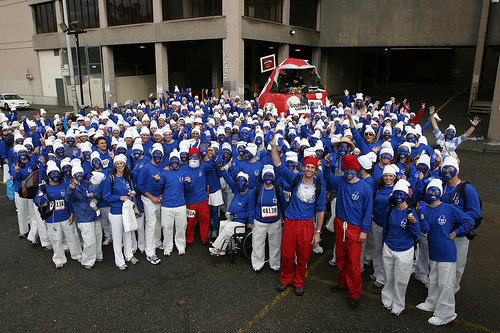 The world record breaking photo for the “Most People Dressed as Smurfs” in San Francisco, United States, during the “Bay to Breakers” foot race.